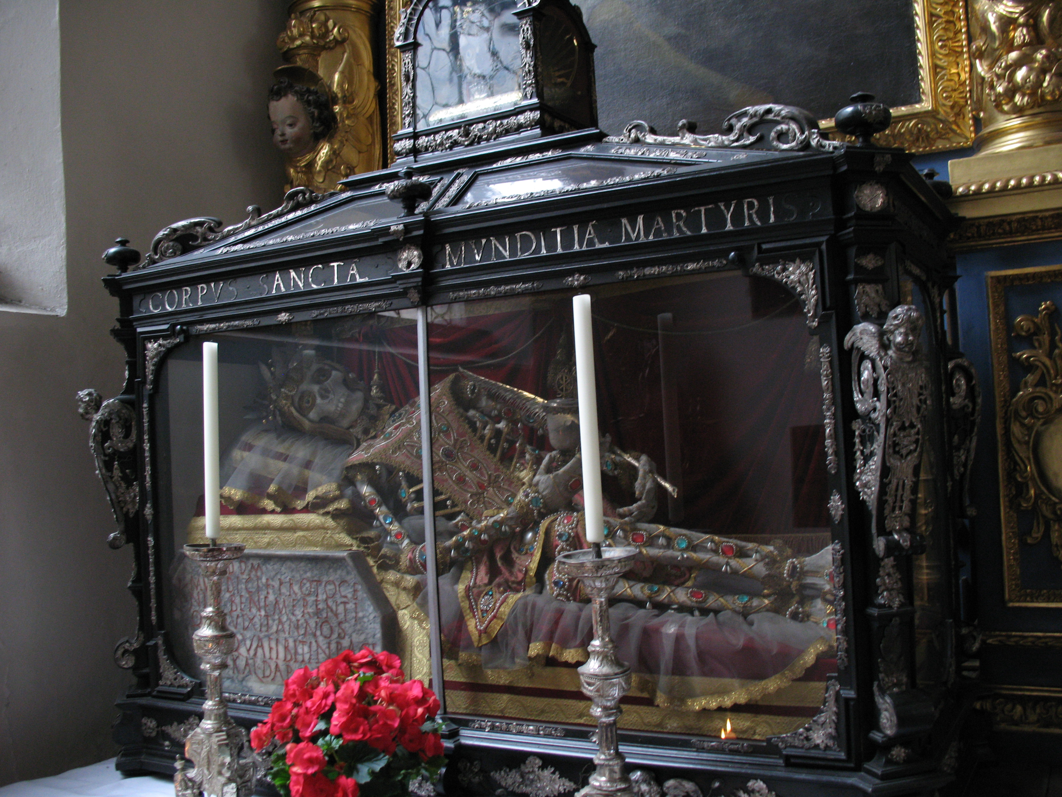 The reliquary of Saint Munditia, St. Peter's Church, Munich, Germany